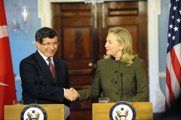 Turkish Foreign Minister Ahmet Davutoglu and U.S. Secretary of State Hillary Clinton,February 13, 2012.